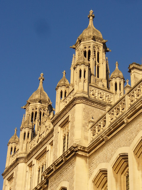 Ivory Towers Now owned by King's College, this was once the Public Records Office in Chancery Lane.